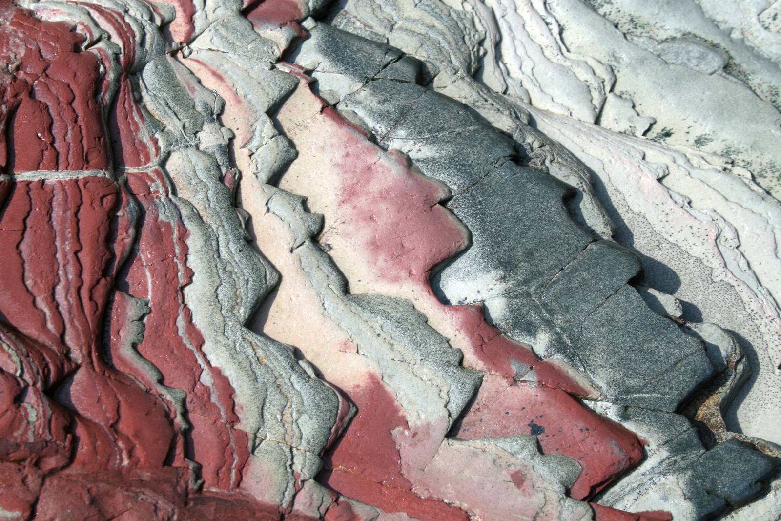 Tidalites of the Port-Lazo Formation on the beach of Anse de Bréhec in Plouha, Côtes-d'Armor department of Brittany in France, outcropping as a stack of red clay-silt laminae and grey-green silt-sand laminae, each a few millimetres in thickness. The red laminae contain ferric iron oxides characteristic of a well-oxygenated and therefore agitated depositional environment. The green laminae contain ferrous iron oxides characteristic of a chemically-reducing depositional environment with calmer water.